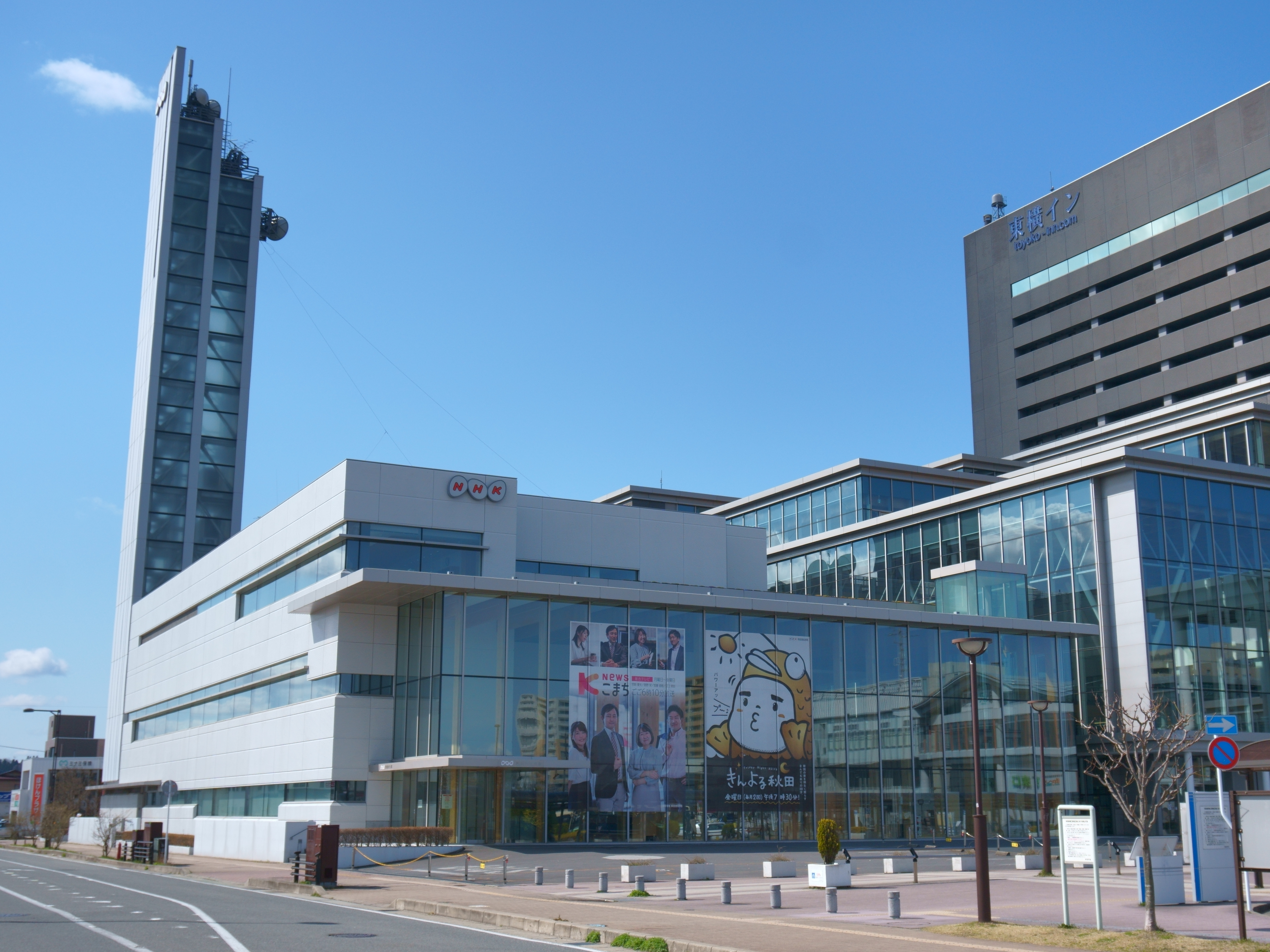 NHK Akita Broadcasting Hall of the Japan Broadcasting Corporation